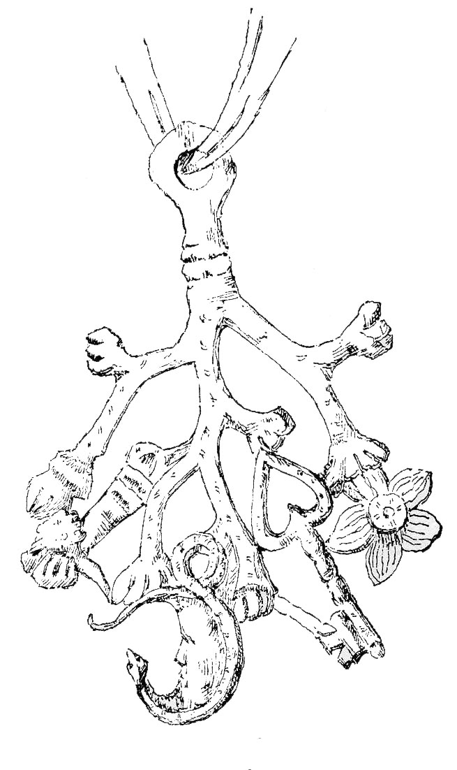 Fig. 162 - Cimaruta amulet used in Italy against the evil eye.